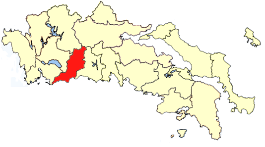 naupaktia_province